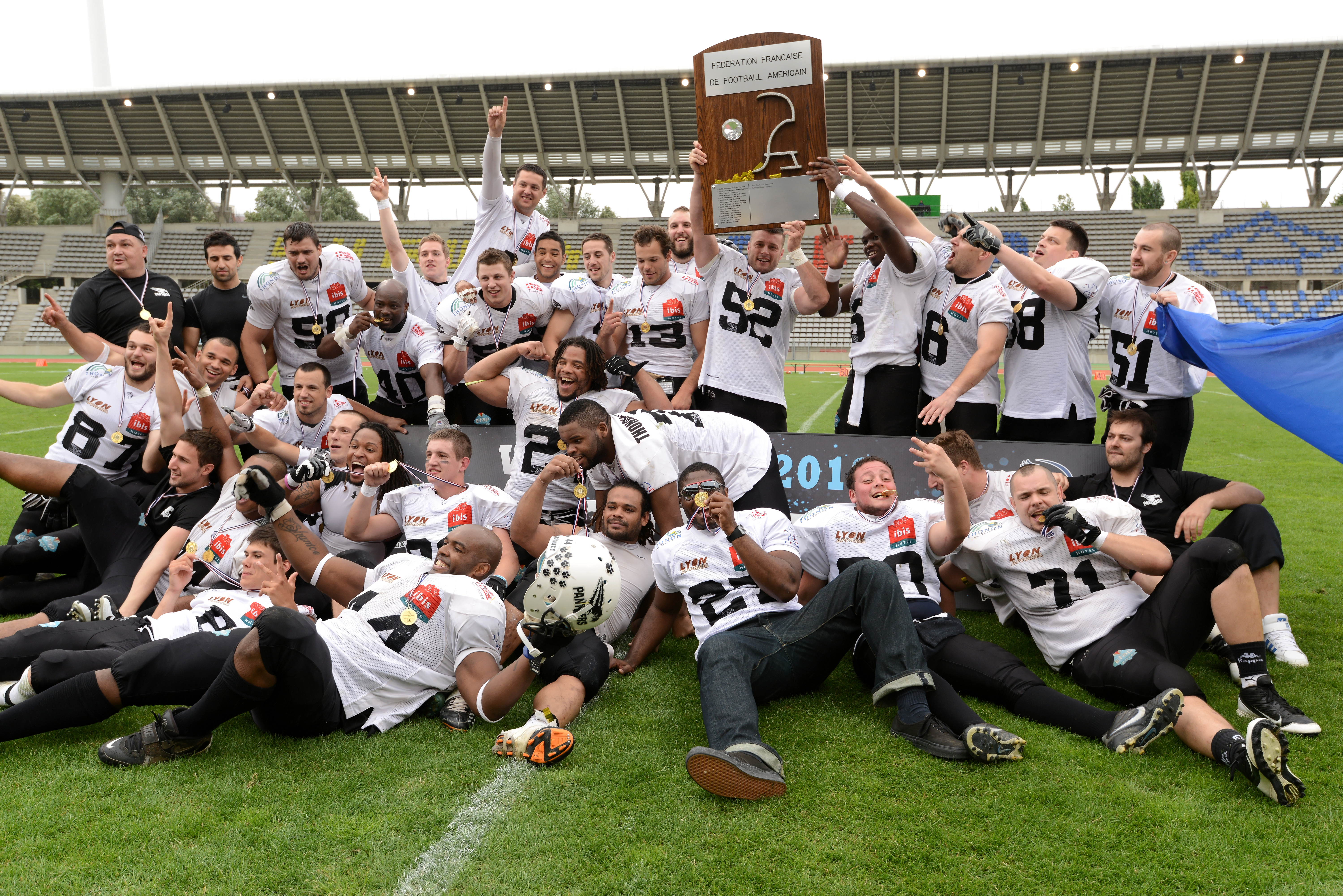 Thonon Black Panthers pose with their trophy after their victory in the final of the French American Football Championship 2013 at Stade Charléty in Paris.